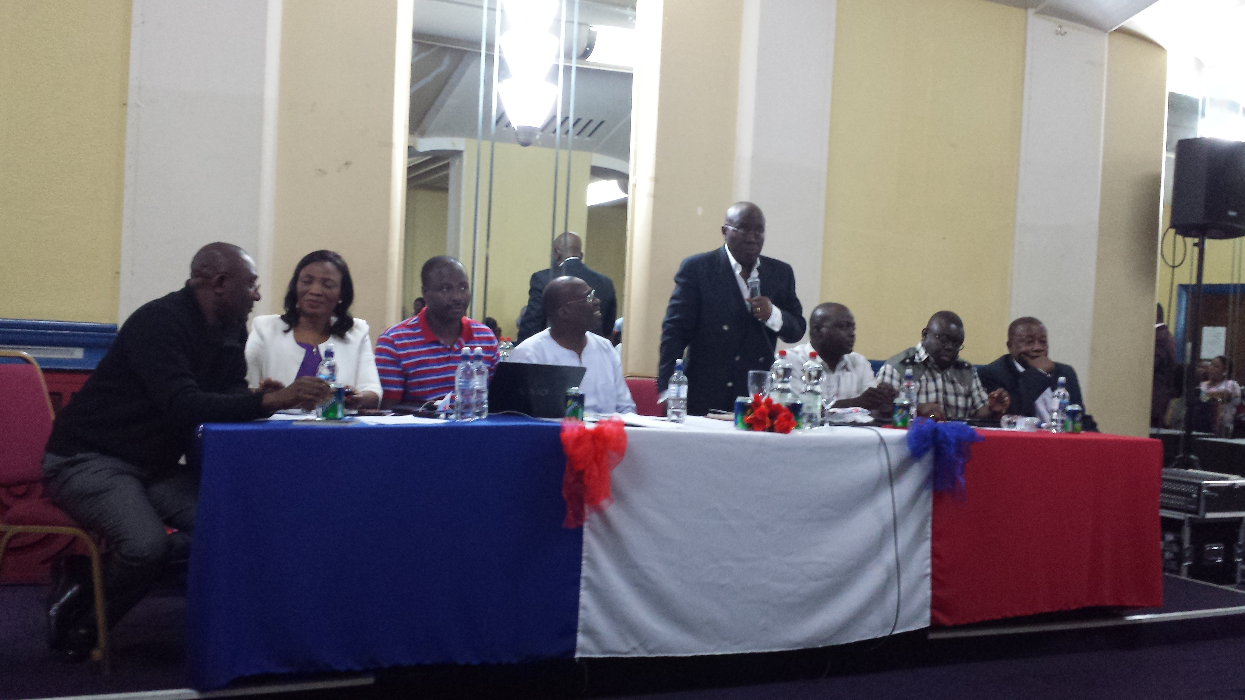 Nana Akufo-Addo speaking to members of the New Patriotic Party (NPP) in Wood Green, London on Sunday 29th June 2014. Picture by, R. Osei-Tutu